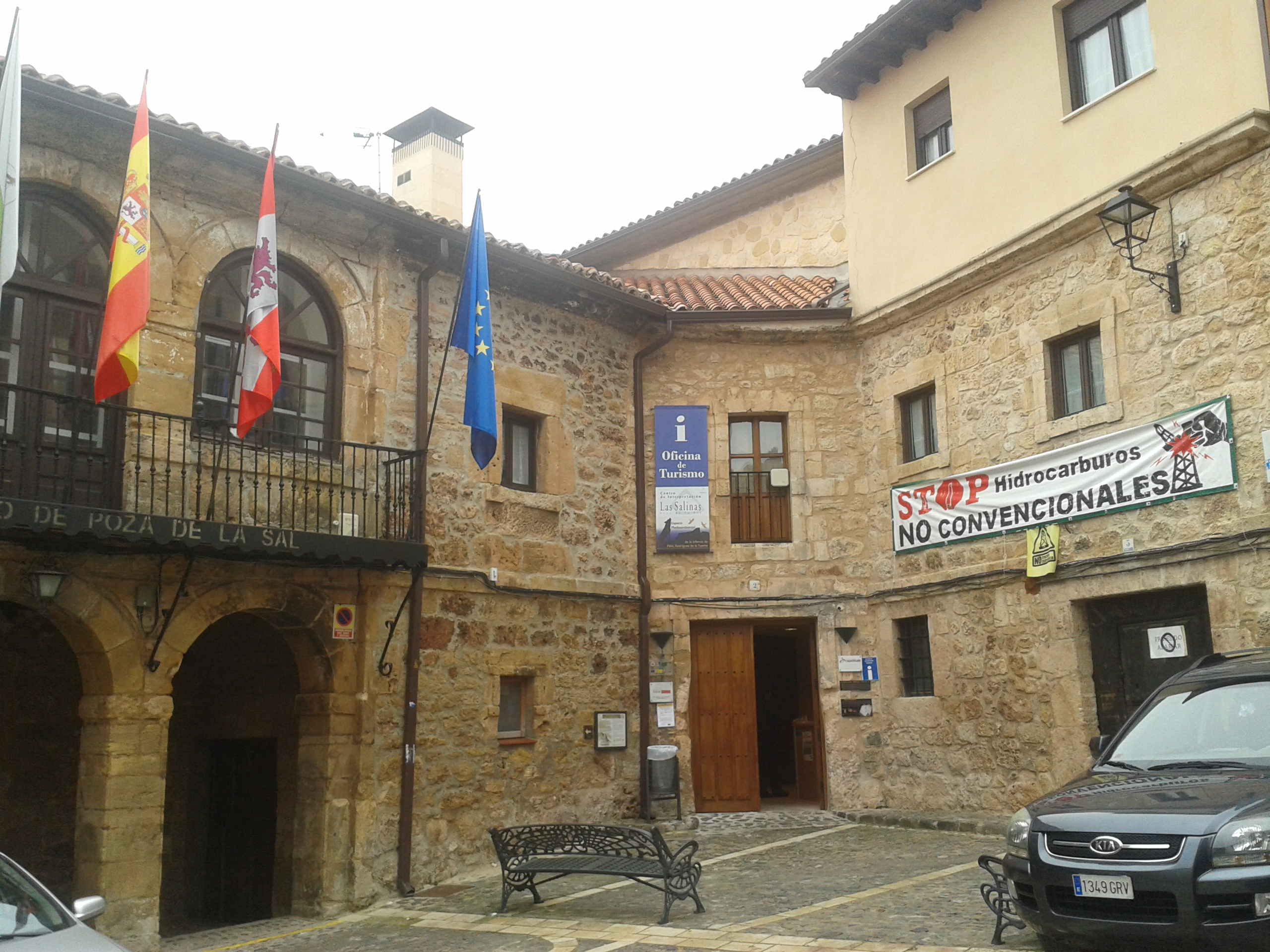 Ayuntamiento de Poza de la Sal, Castilla y León, España